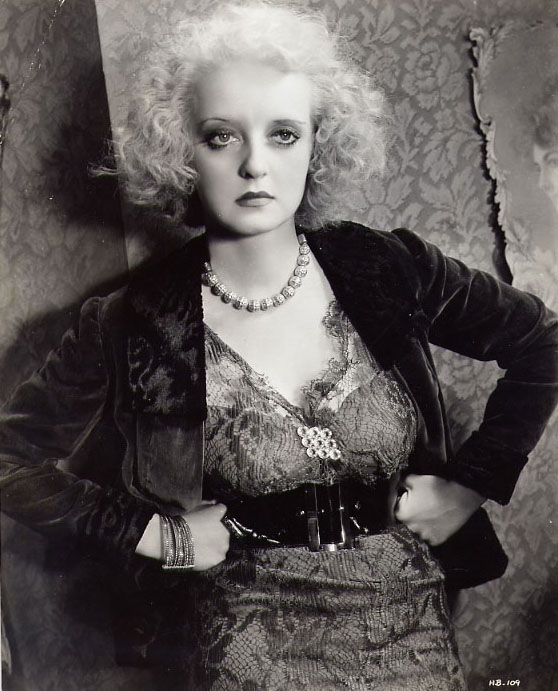 Cropped publicity still of Bette Davis in the 1934 American film Of Human Bondage. Such images were taken by a studio photographer, and then disseminated to the media and the public to promote the film (see Film still). This is definitely a publicity still due to the high quality of the image.